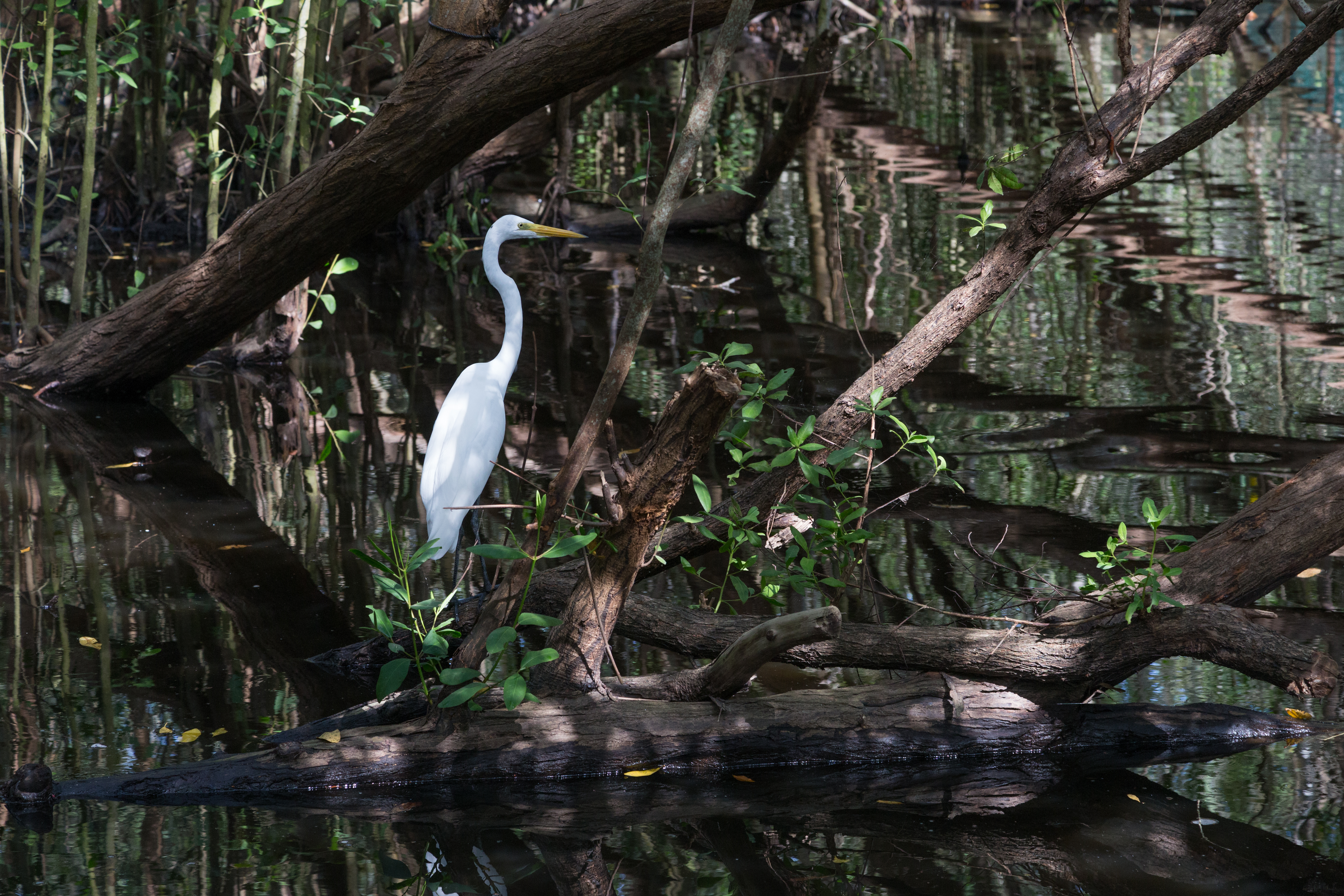 Ardea alba in a mangrove at La Manzanilla, Jalisco, Mexico.